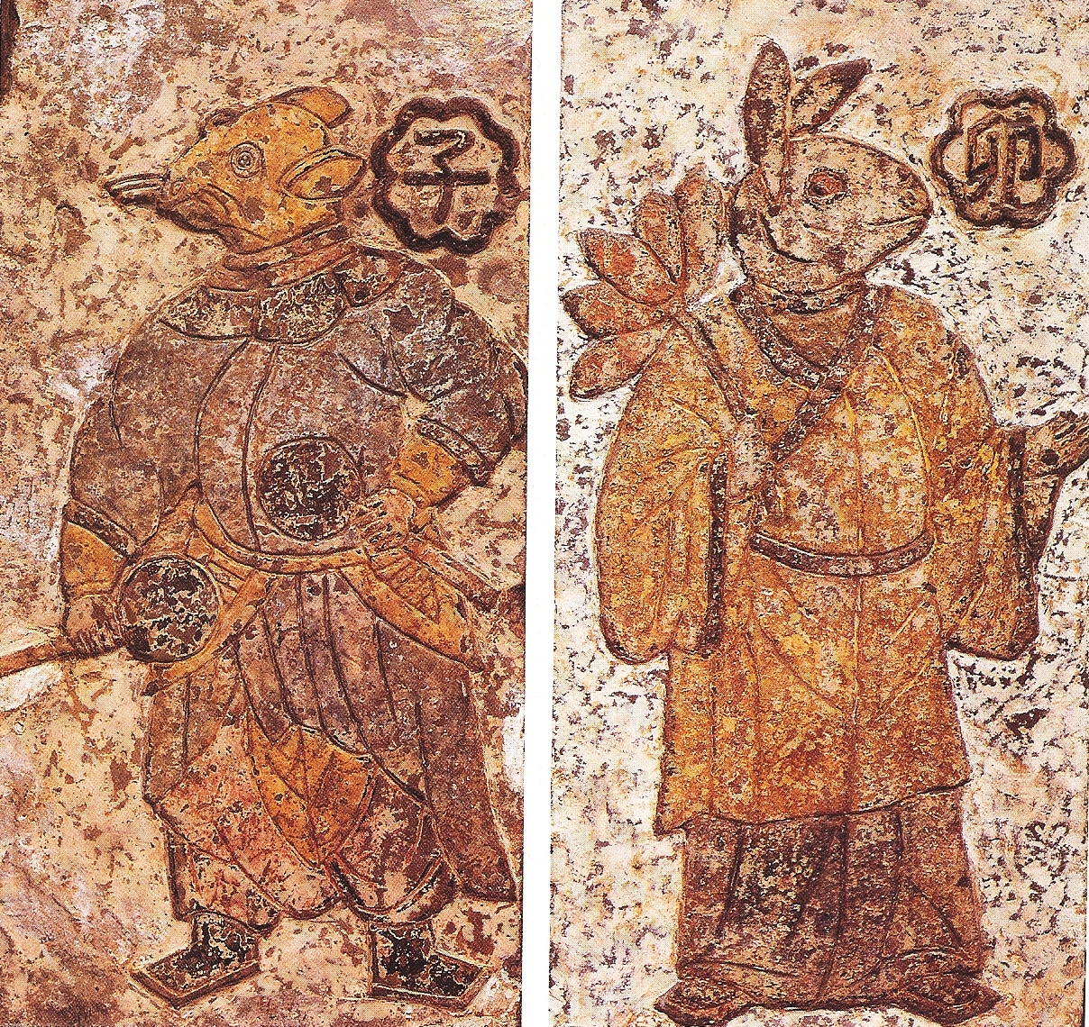 Paintings on ceramic tile from the Chinese Han Dynasty (202 BC – 220 AD); these figures, cloaked in Han Chinese robes, represent guardian spirits of certain divisions of day and night. On the left is the guardian of midnight (from 11 pm to 1 am) and on the right is the guardian of morning (from 5 to 7 am). From the National Museums of Scotland, Edinburgh.